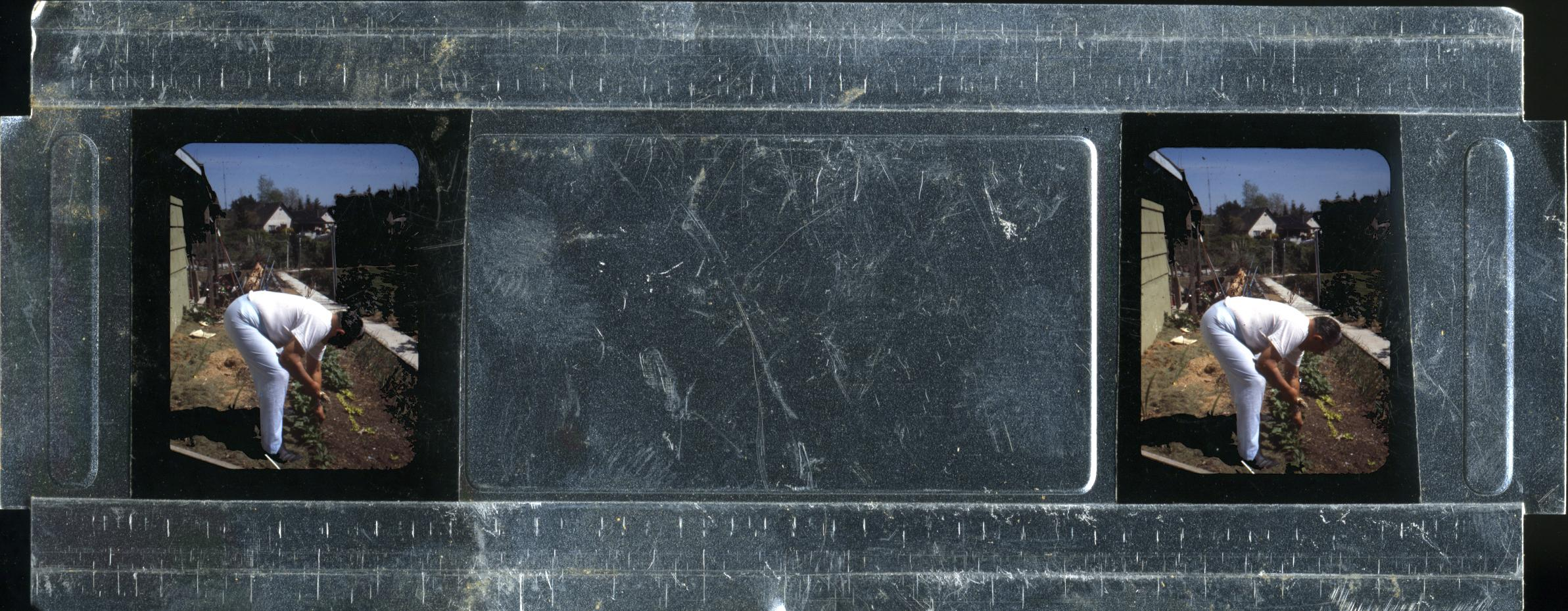 Nismlso aluminum mount, also known as Realist "closup" and 4P mount